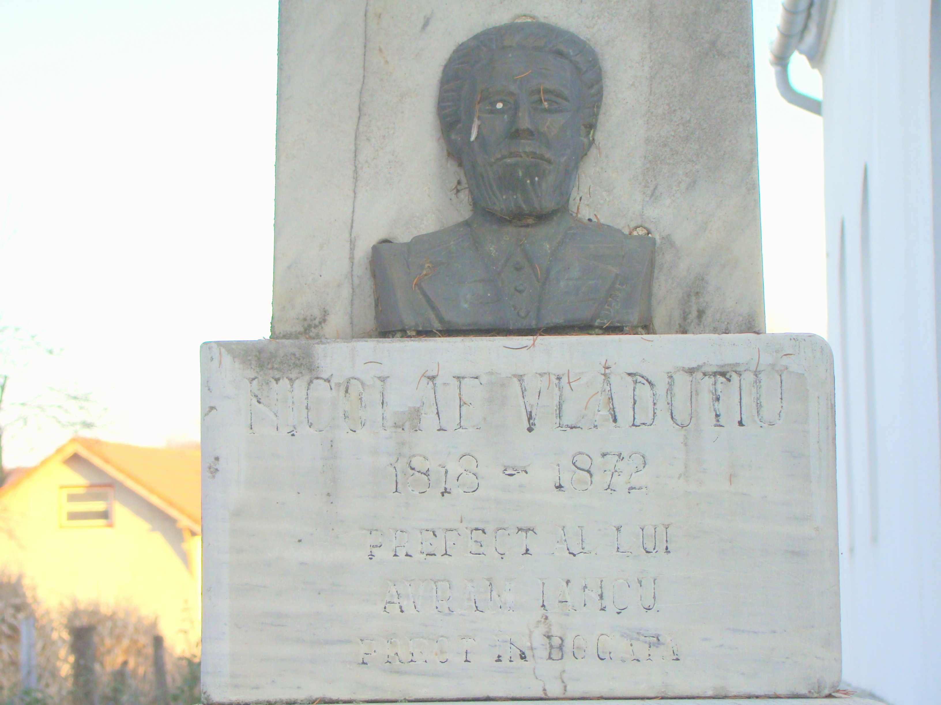 Monument dedicated to Nicolae Vlăduțiu in Bogata, Mureș county, Romania